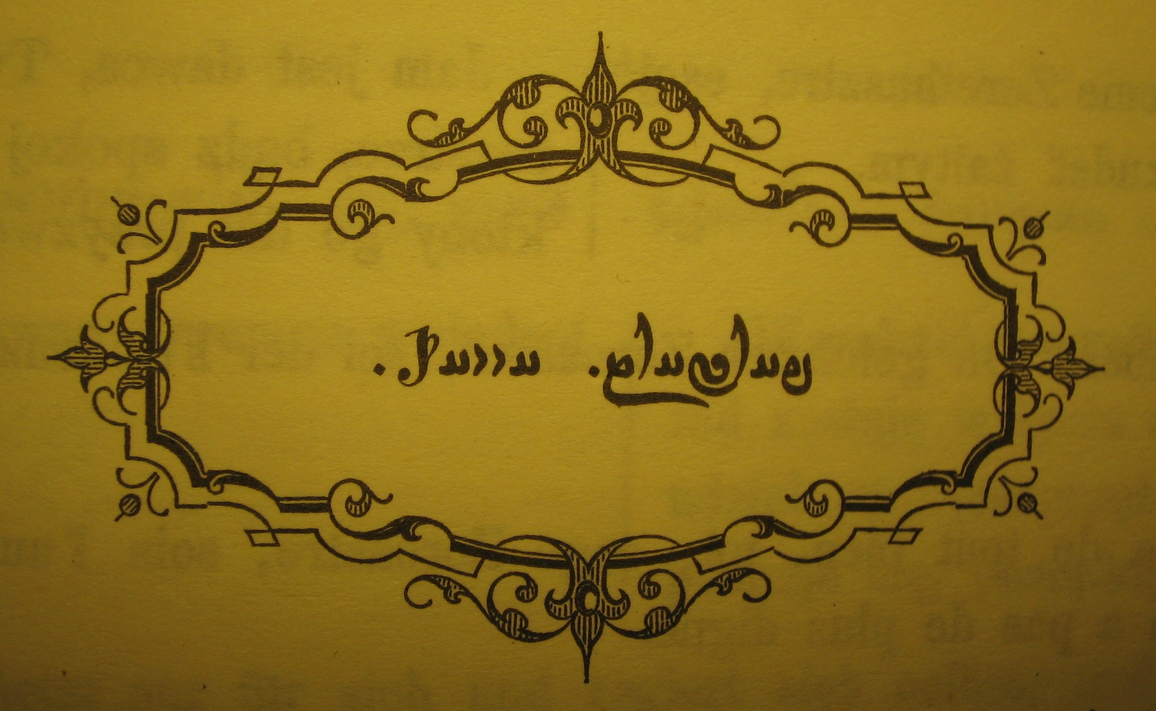 An example of the Avestan Letter LE used in a heading of an Avesta. Latin transliteration: pargat auual.